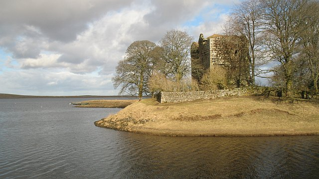 Cairns Castle Beside Harperrig Reservoir, the tower was built to control traffic using the important Cauldstane Slap pass. Today the pass is only defended by keep out signs.